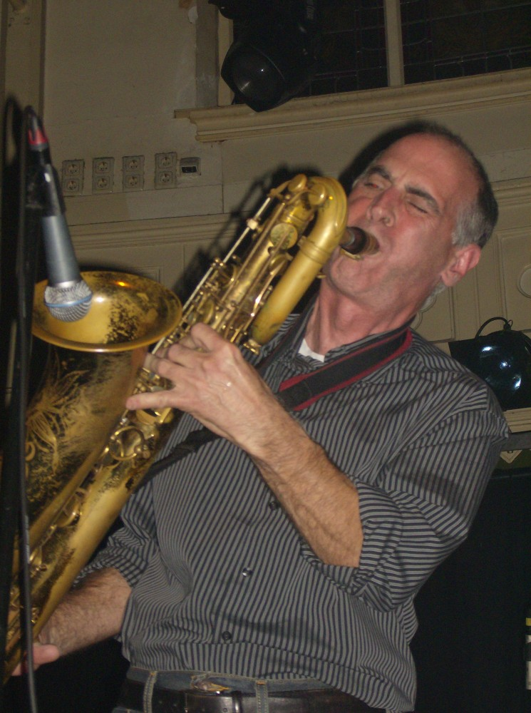 Eddie Manion, altsaxophonist with Southside Johnny and the Asbury Jukes, live in Amsterdam, October 14, 2006